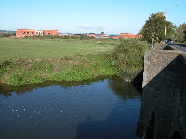 The Mythe Waterworks The Mythe Waterworks treats water drawn from the river Severn (the Severn flows behind it). Viewed here from the Beaufort Bridge, carrying the A38 over the Old Avon. The meadow in front of the waterworks is called Breaking Stone Meadow.